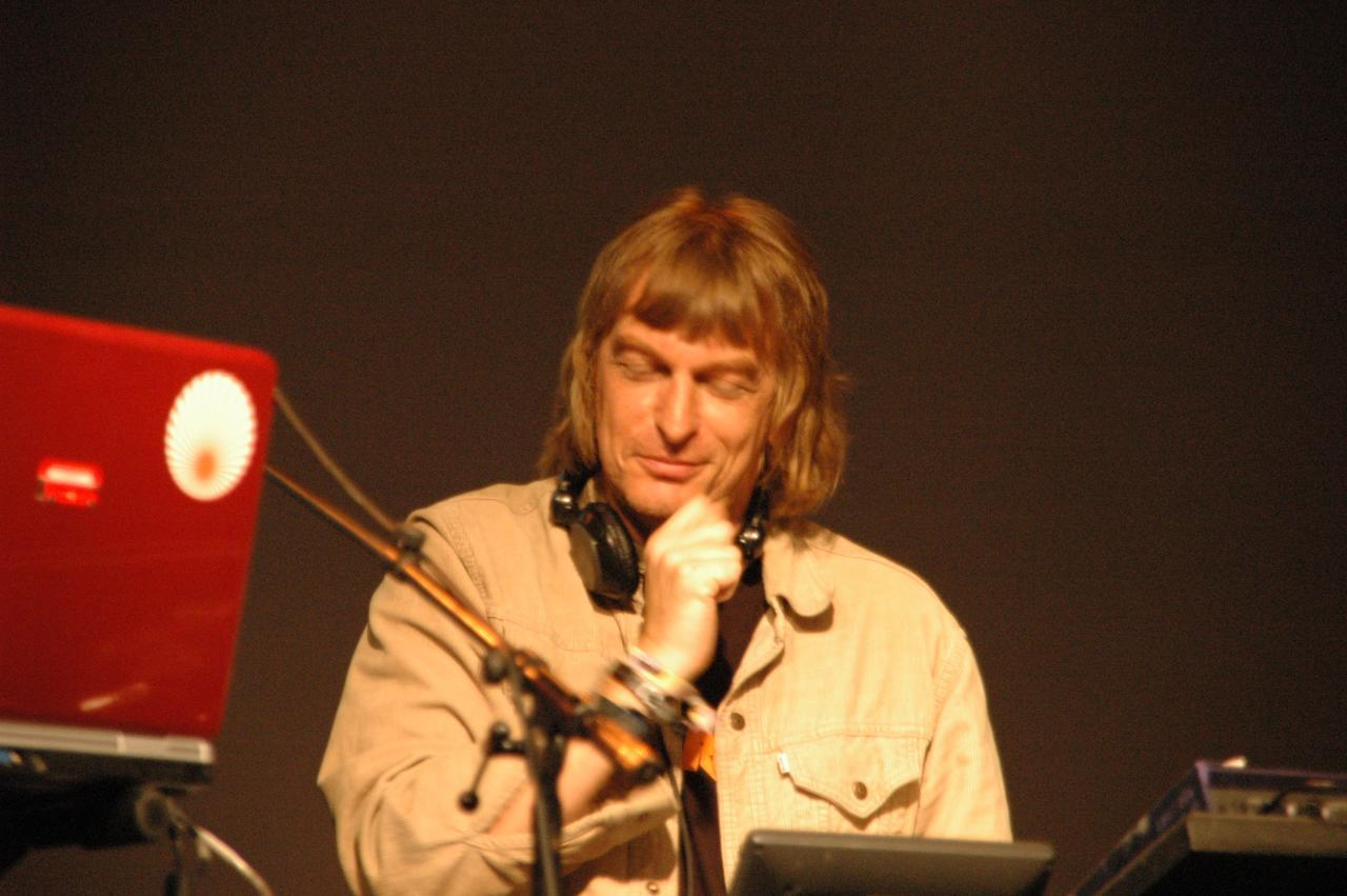 Matt Black from British music duo Coldcut during their live performance at Rathaus/Arkadenhof Vienna, Jazz Fest Wien 2006 [1]